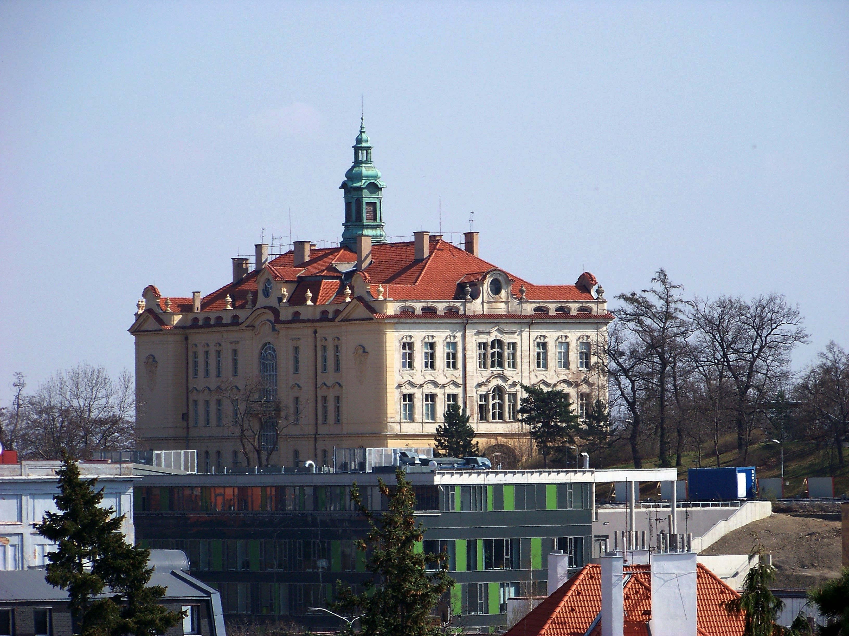 Prague-Libeň, the Czech Republic. Vychovatelna, seen from Kubišova street.